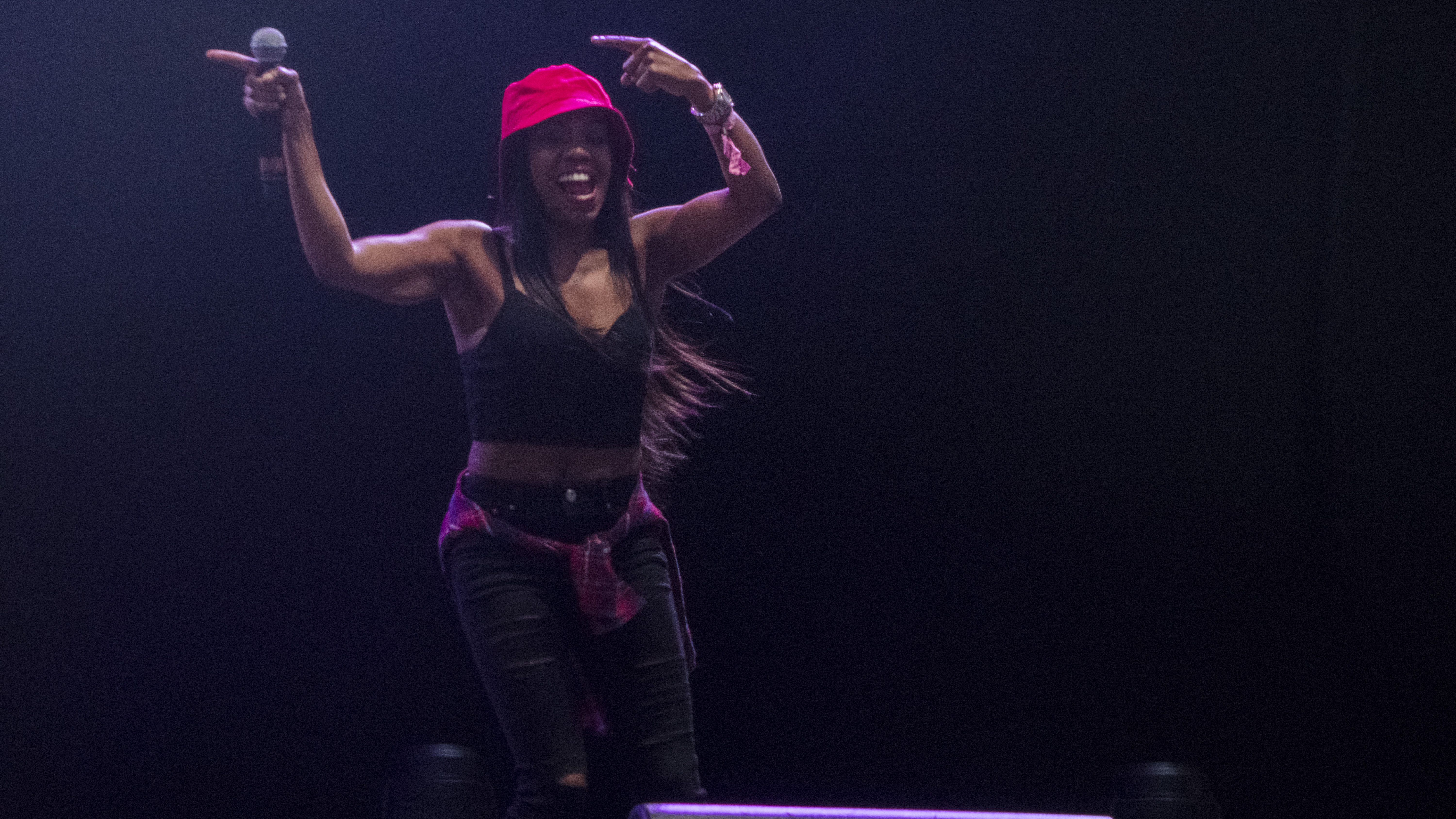 Lady Leshurr performing at Field Day 2017